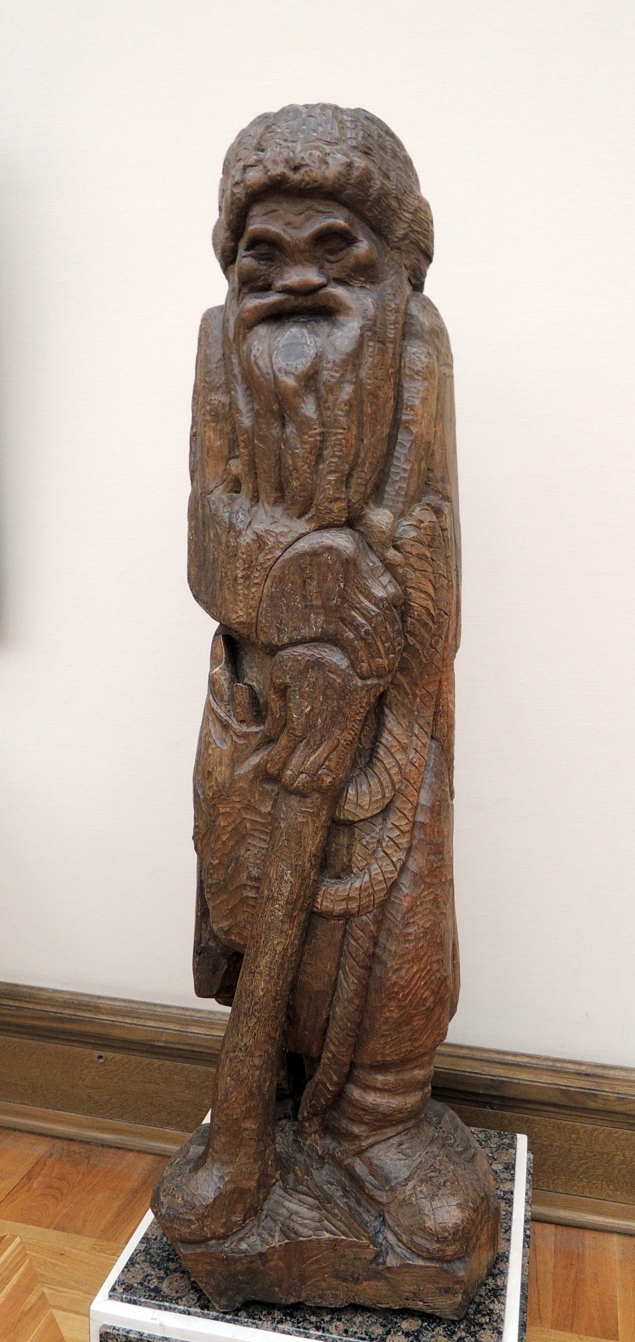 Starichok-polevichok by Konenkov (1910, Tretyakov gallery)